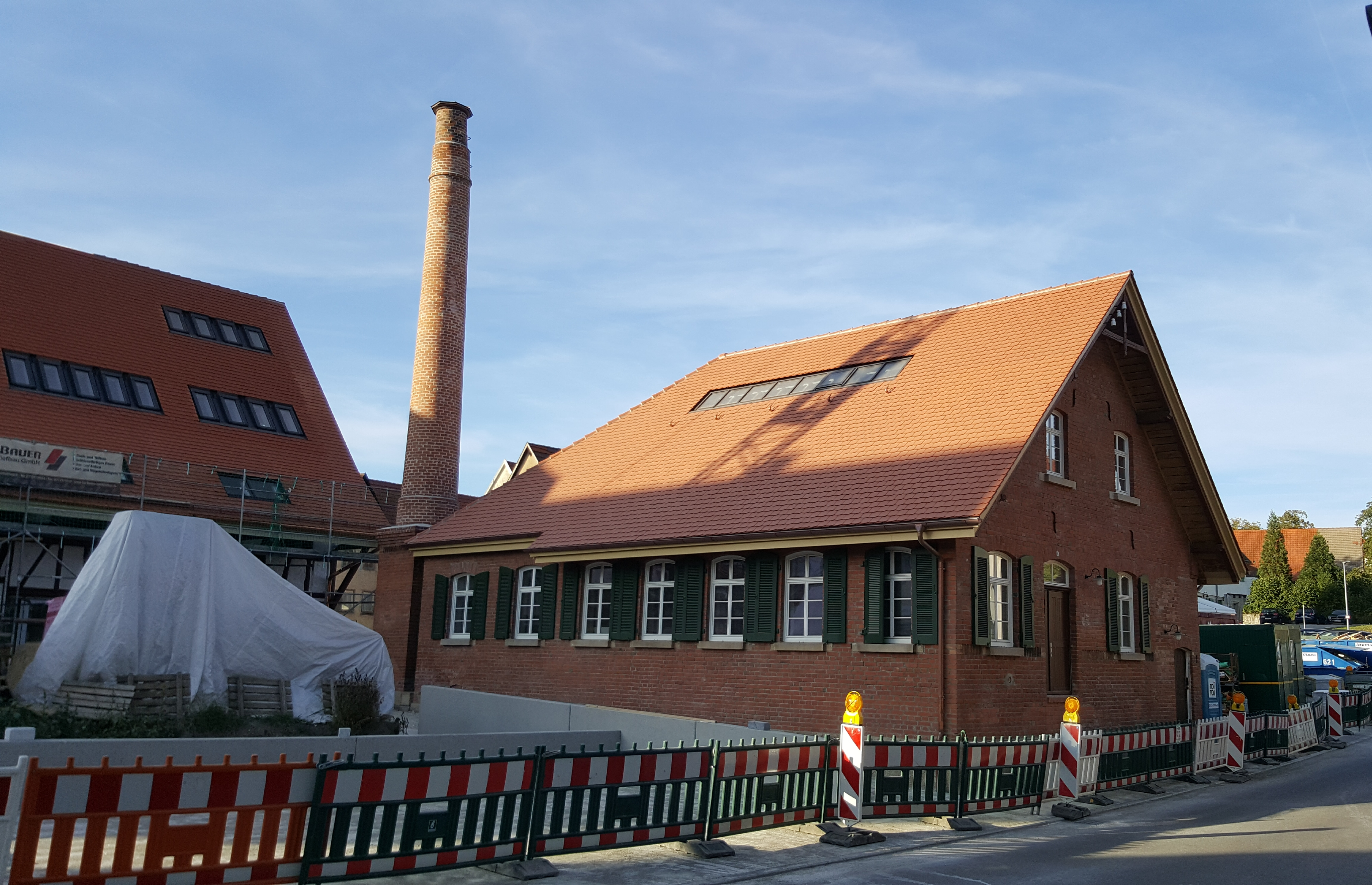 Walddorfhäslach, Kulturdenkmal Molkerei, September 2019